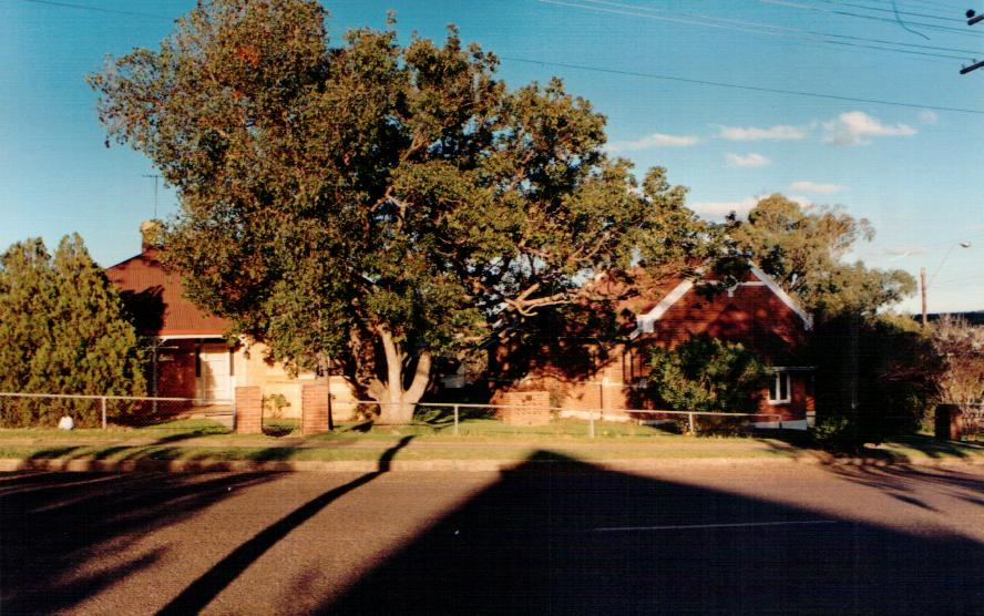 St. Stephen's Presbyterian Church and Manse, Stephen Street, Warialda, New South Wales, Australia Image created by Stephen McDonald in 1996.